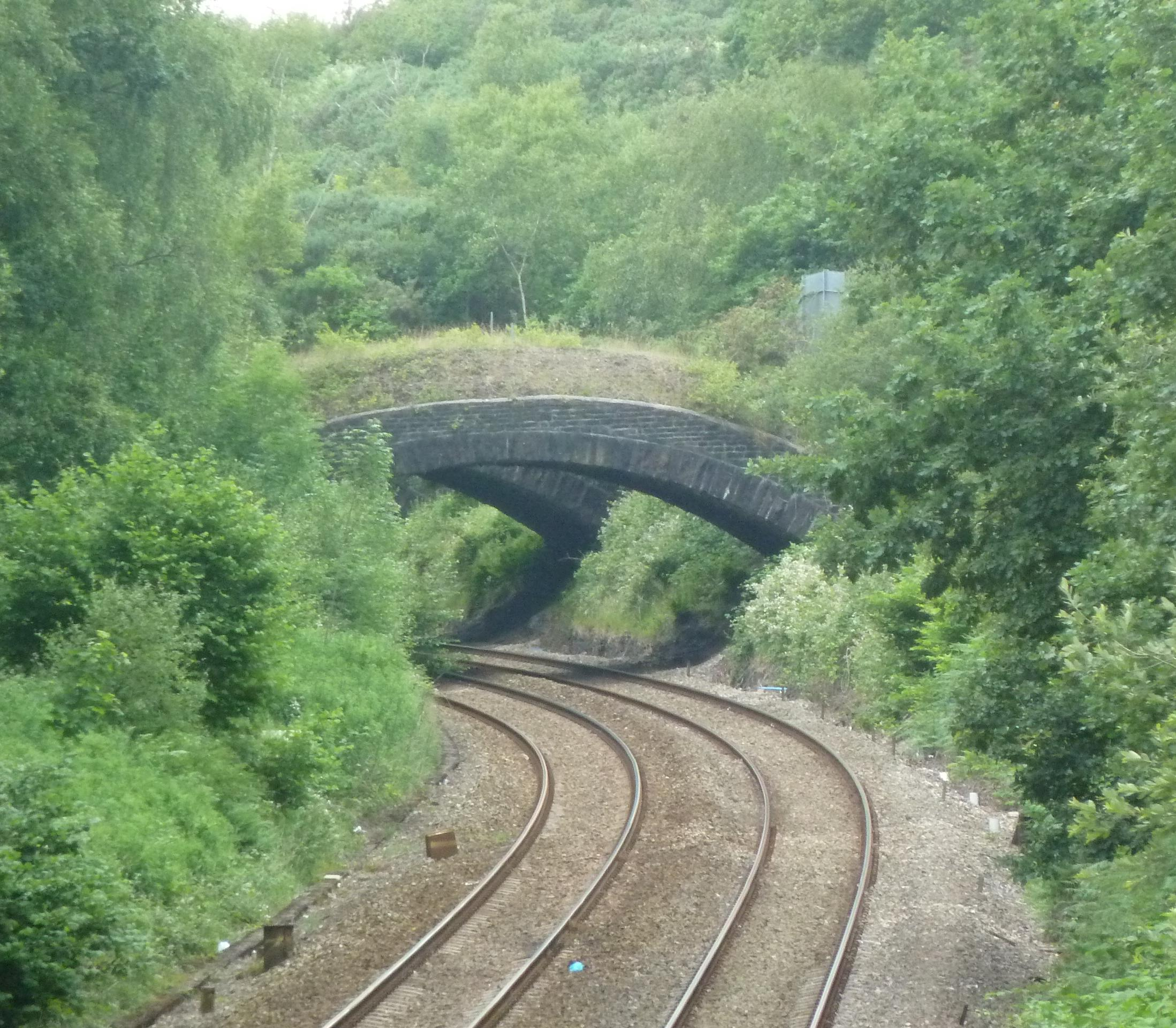 The first two of Brunel's flying arches on the line West of the Llansamlet tunnel.